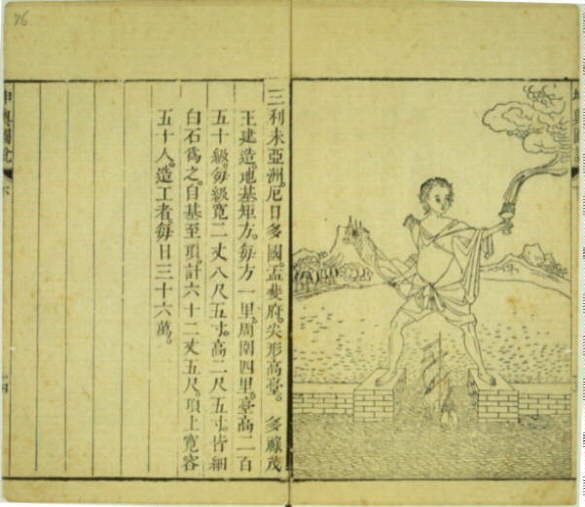 Here we see the Colossus of Rhodes, guarding that Mediterranean harbor, an image quite familiar to westerners from both classic and popular archaeology. Giulio Aleni, the equally skilled and effective successor to Matteo Ricci in China, supervised this wood-block printing of a book on the wonders of the western world, titled K'un-yü t'u-shuo (坤輿圖說 "An Illustrated Explanation of Geography"), currently stored at the Vatican Library's Borgia Cinese collection, catalogued Borg. cin. 350, fasc. 30, fols. 75-76. The Chinese book shown here does not represent the best of Chinese wood-block engraving but appears to be a cheap printing (there is no publishing information given). It was probably sponsored by one of the churches that Aleni fostered in Fukien, where low-cost and quick printing abounded.